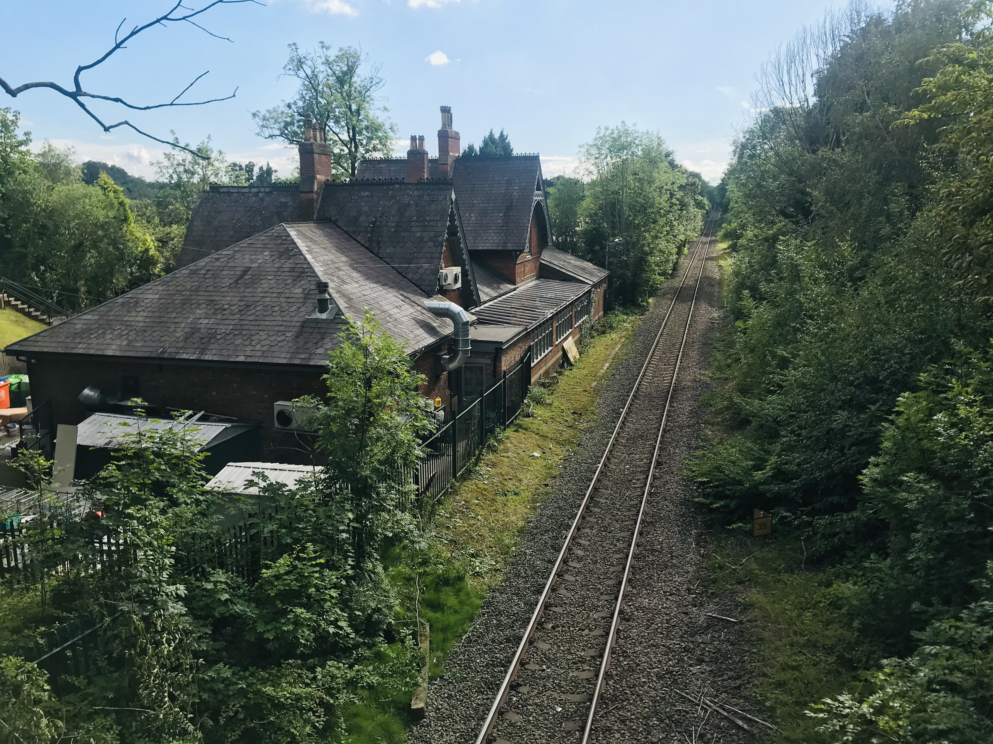 The former Cheadle North Station, Manchester